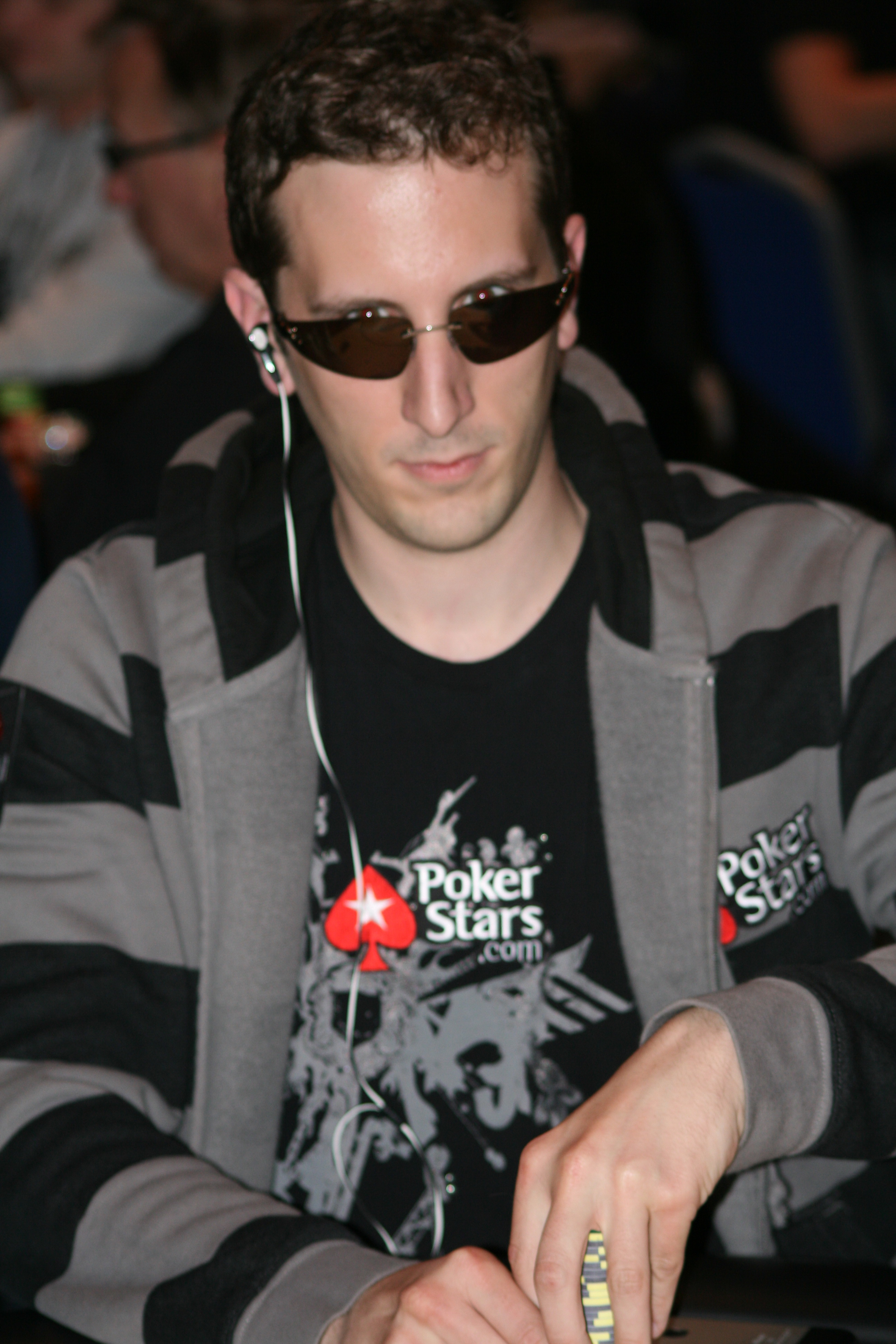 Bertrand Grospellier at the EPT Grand Final in Monte Carlo